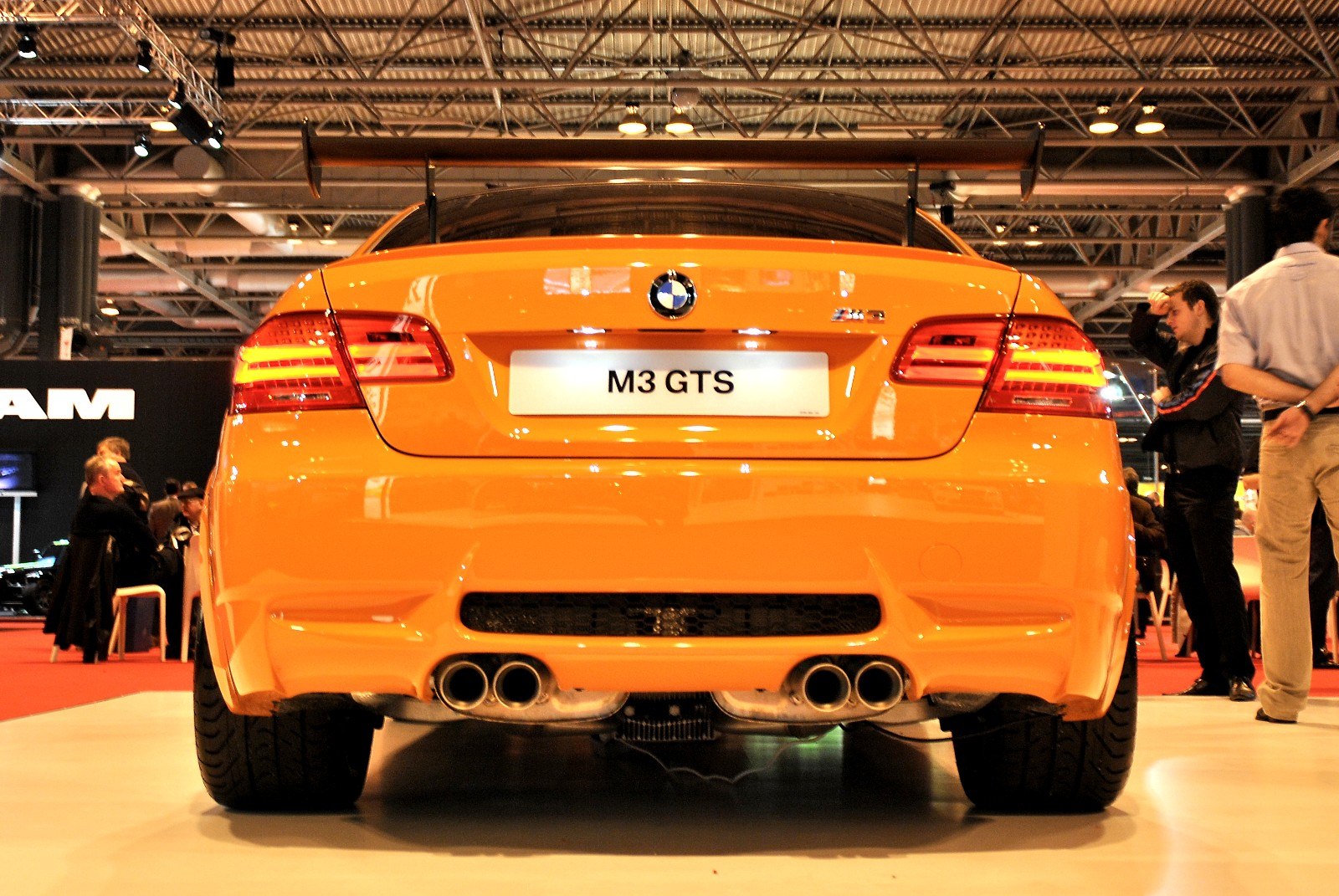 Autosport International Show 2011 - BMW M3 GTS